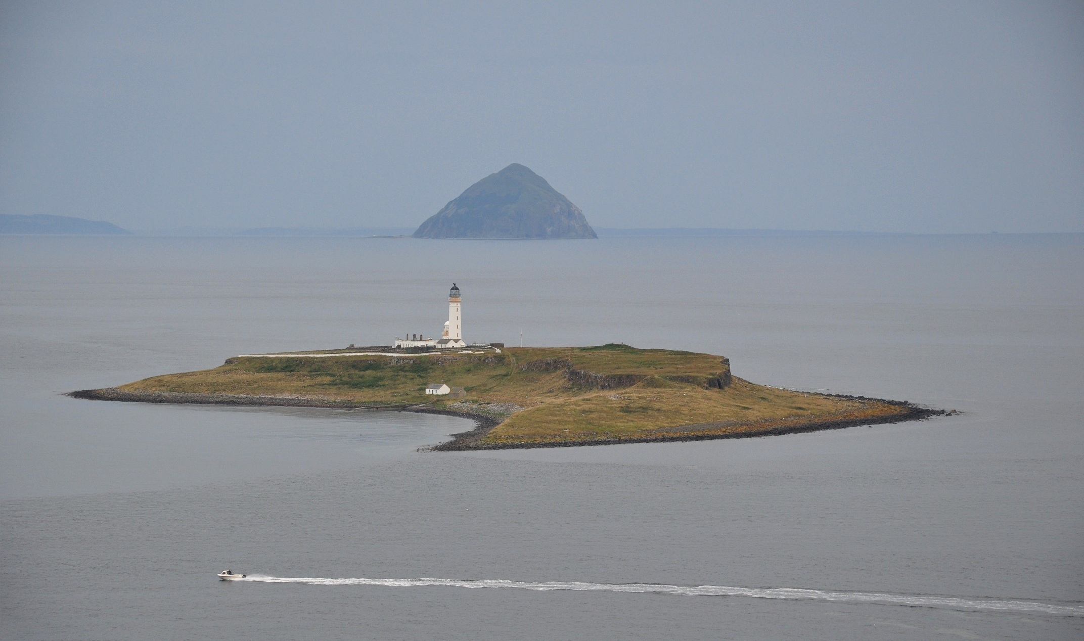 The islands Pladda (foreground, with lighthouse) and Ailsa Craig (in the distance) in the Firth of Clyde, as seen from Drumla farm in Kildonan, Isle of Arran (North Ayrshire, Scotland).